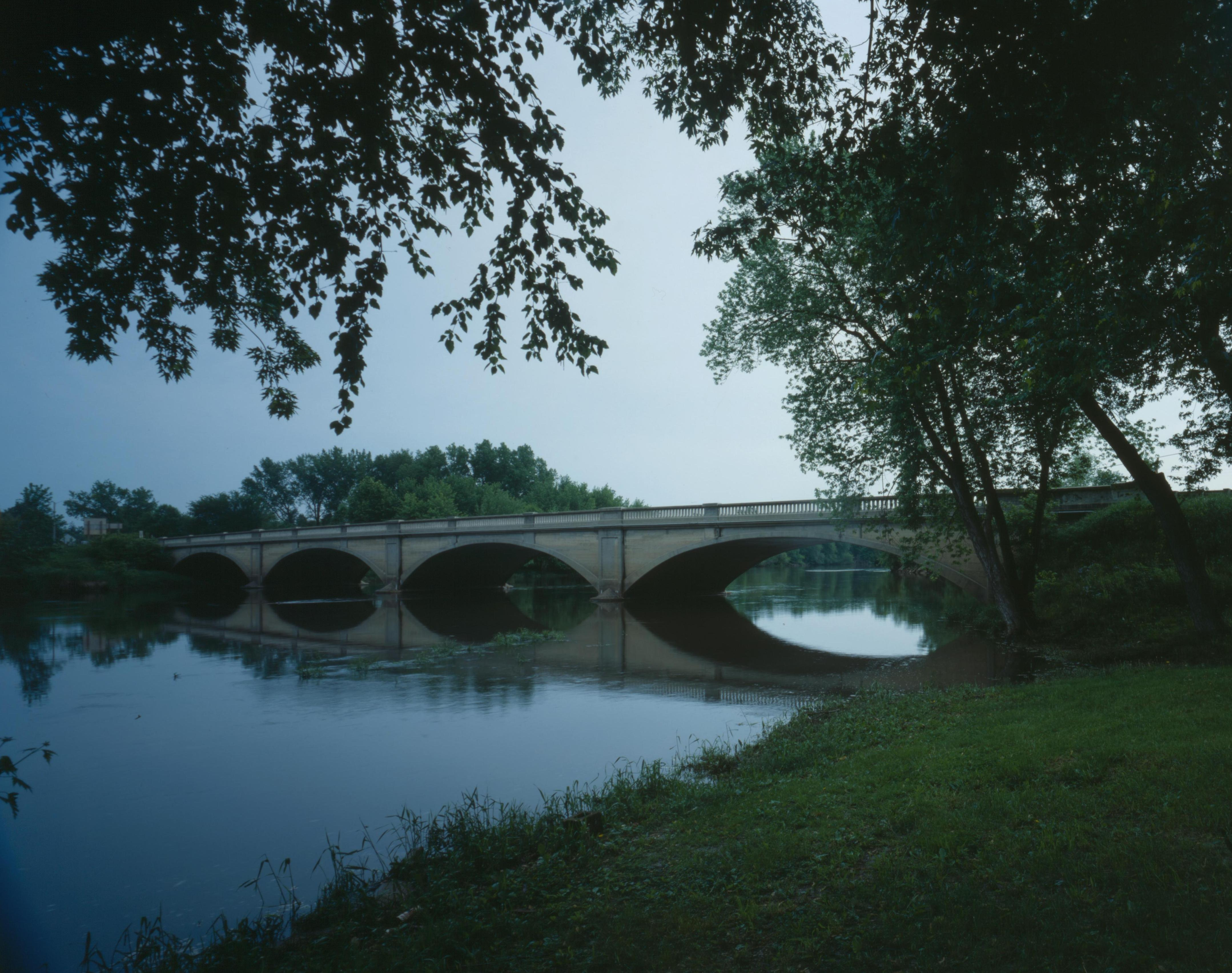 Western side of the Wapsipinicon River Bridge, which carries Iowa Highway 150 over the Wapsipinicon River near Independence in Buchanan County, Iowa, United States. Built in 1926, the concrete spandrel arch bridge is listed on the National Register of Historic Places.